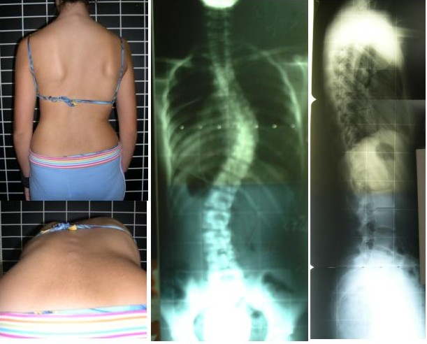 Initianal diagnosis of scoliosis: dorsal and forward bending photographs (Adam's Forward Bend Test), AP and latero-lateral radiographs